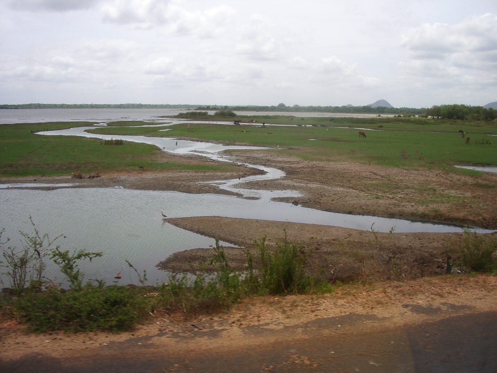 Lowlands near Anuradhapura